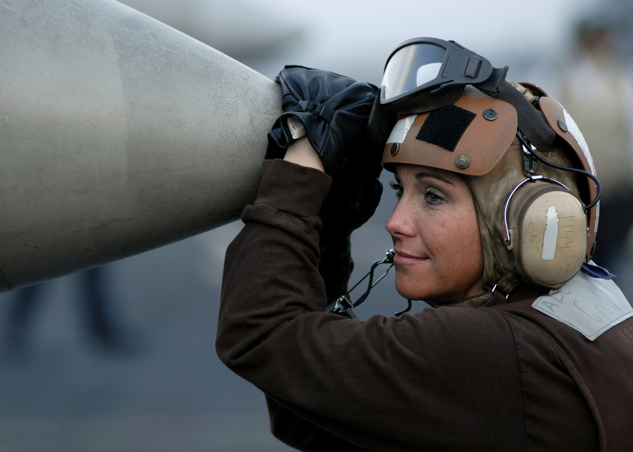 U.S. Navy Chief Aviation Machinist's Mate Crystal Crawford waits beside an F/A-18C Hornet aircraft as it is prepared for a mission on the flight deck of the Nimitz-class aircraft carrier USS Abraham Lincoln (CVN 72) while underway in the Persian Gulf on May 18, 2005. The Lincoln is deployed to the U.S. Navy 5th Fleet area of responsibility to support maritime security operations.